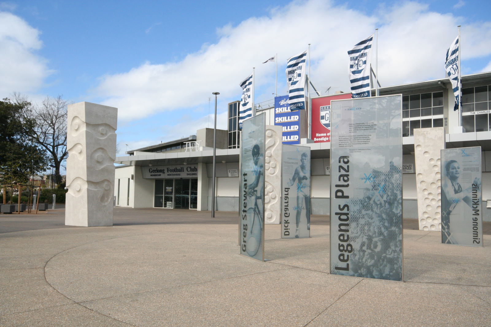 Kardinia Park (Skilled Stadium) entry plaza - Geelong, Victoria, Australia